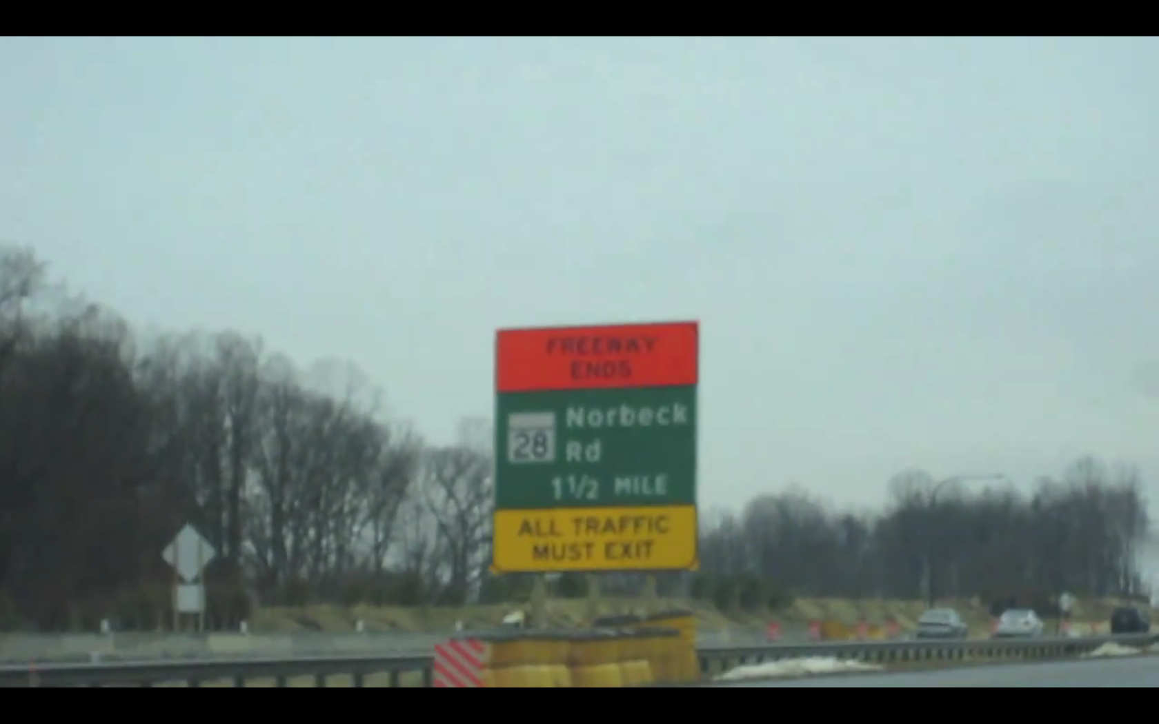 Sign denoting that MD SR-200 currently ends at MD SR-28/Norbeck Road